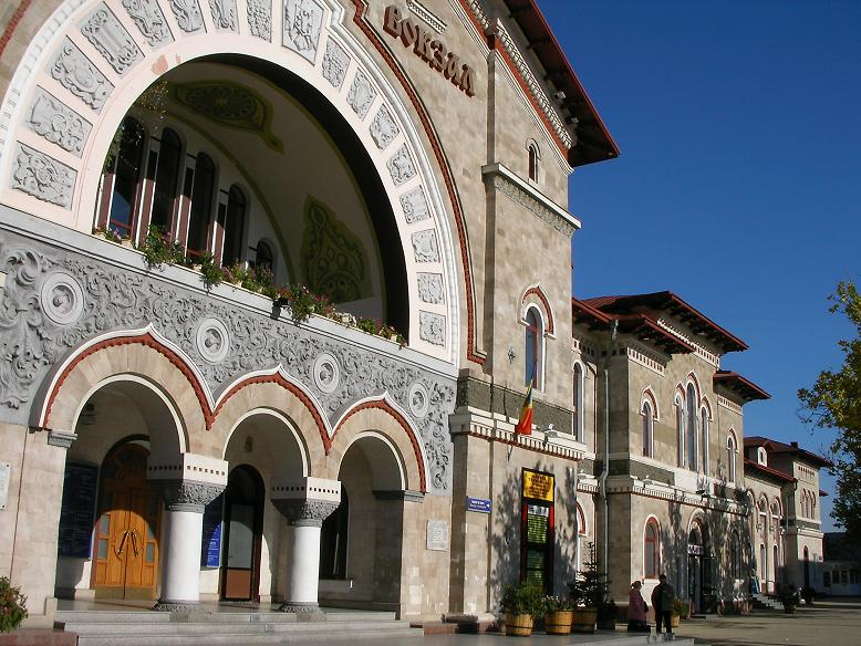 Chisinau train station exterior